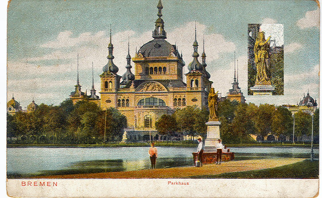 Bremen, Parkhouse